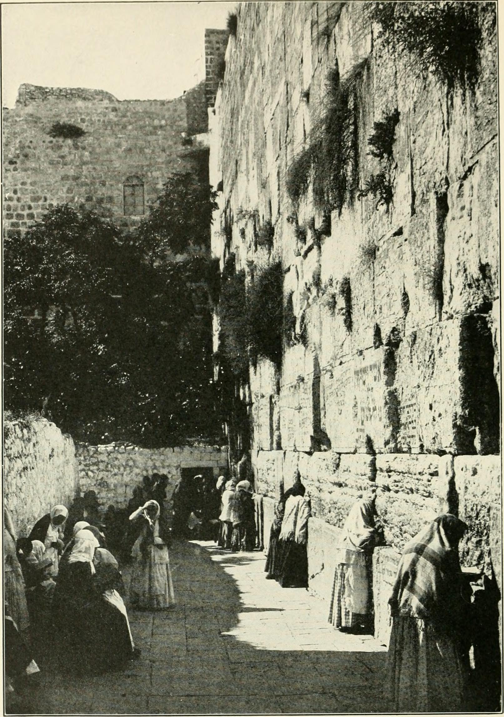 Title: The Holy Land and Syria Year: 1922 (1920s) Authors: Carpenter, Frank G. (Frank George), 1855-1924 Subjects: Palestine -- Description and travel Syria -- Description and travel Publisher: Garden City, N. Y. : Doubleday, Page & company Text Appearing Before Image: Moslem pilgrims pray at the Mosque of Omar, which occupies thesite of Solomons Temple. It is said that no faithful Jew will enter itsinclosure, for fear of treading on the spot where once was the Holy ofHolies Text Appearing After Image: Every Friday devout Jews weep under the walls of the Mosque of Omar, mourning the loss of their temple. They repeat for hours their litany: For the temple that is desolate. . . . We sit in solitude andmourn ON THE SITE OF SOLOMONS TEMPLE the centre of the earth, and that some beHeve it to bethe gate of hell. He shows us a plate of jasper as bigas a checker board, in which are three golden nails, sayingthat the plate originally contained nineteen nails whichMohammed had driven into it. One nail drops out atthe end of each age of the Moslem cycle, and when thelast nail is gone the end of the world will occur. Theguide offers to let me pull out the last three nails for adollar apiece, but I have no desire to hasten the Judg-ment Day, and therefore refuse. In that way I savethe world. The devil got at this plate one day, so our consularkavass tells me, and was jerking out the nails at a greatrate when the Angel Gabriel caught him and pulled himaway. These stories are silly, but they are o